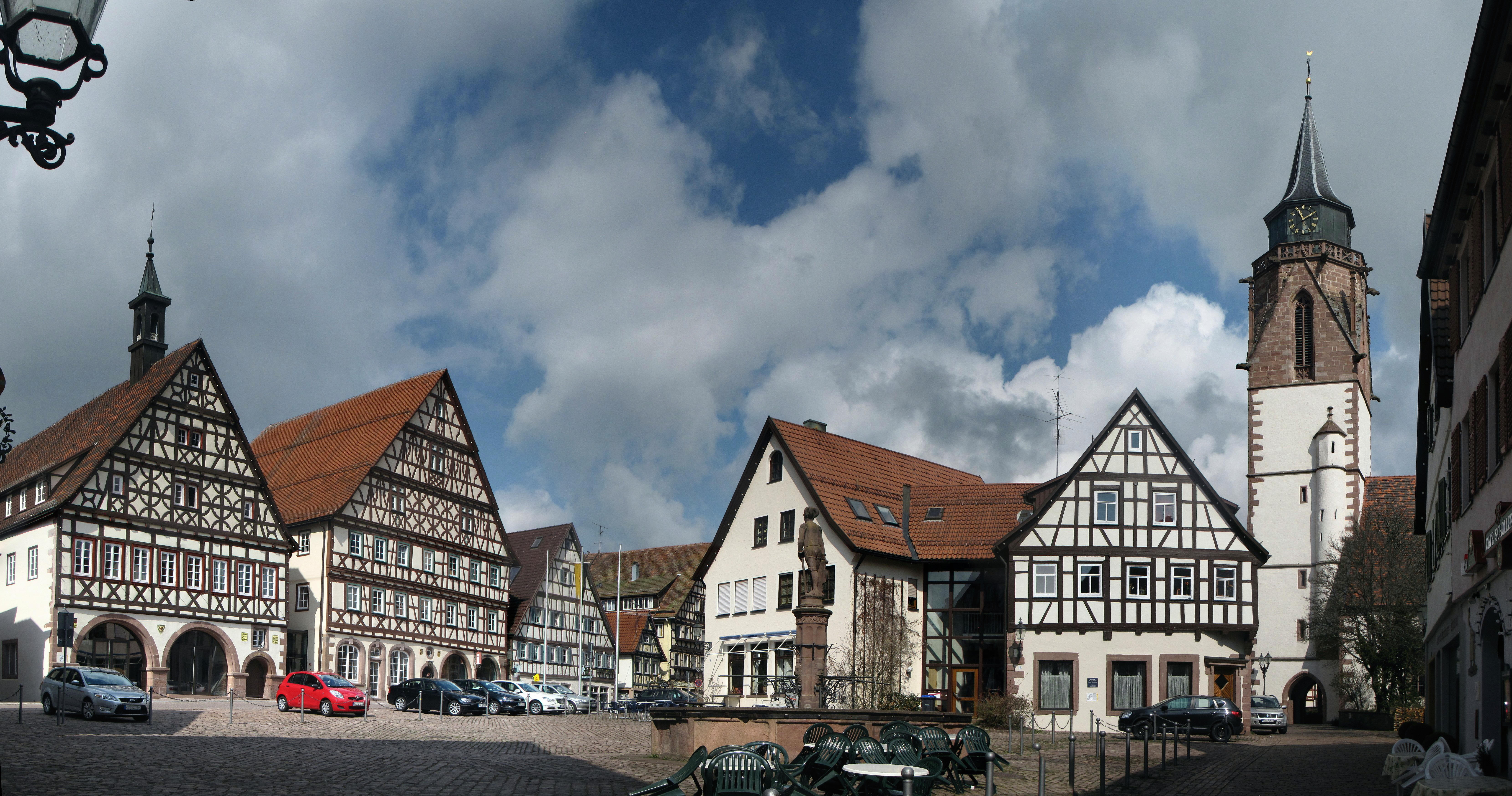 Market square and half-timbered buildings in Dornstetten , Baden-Württemberg, Germany. In foreground market place fountain; background town-hall, guest-house oxen, old schoolhouse, old vicarage and Martin church.